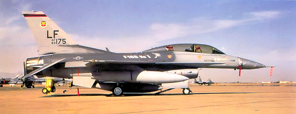 312th Tactical Fighter Training Squadron - General Dynamics F-16D Block 25 Fighting Falcon 83-1175 Aircraft marked as "F-16D No. 1"